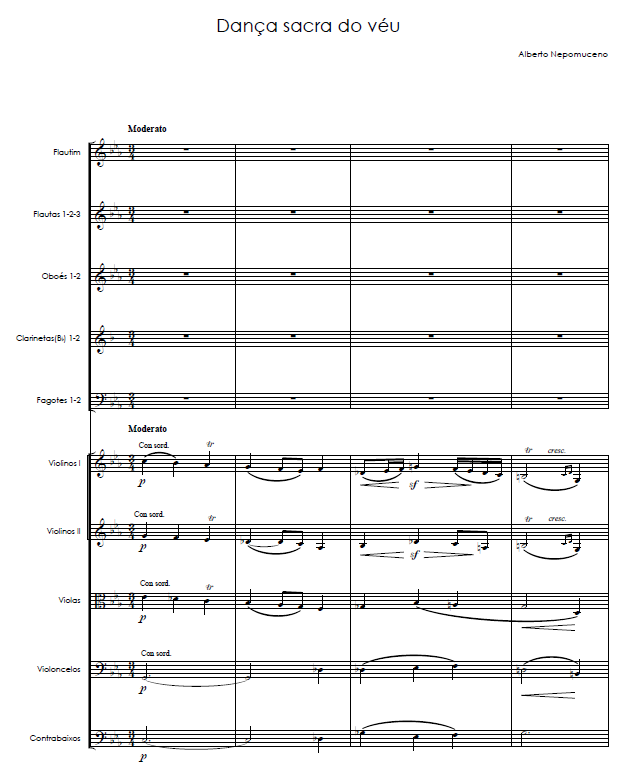 Score